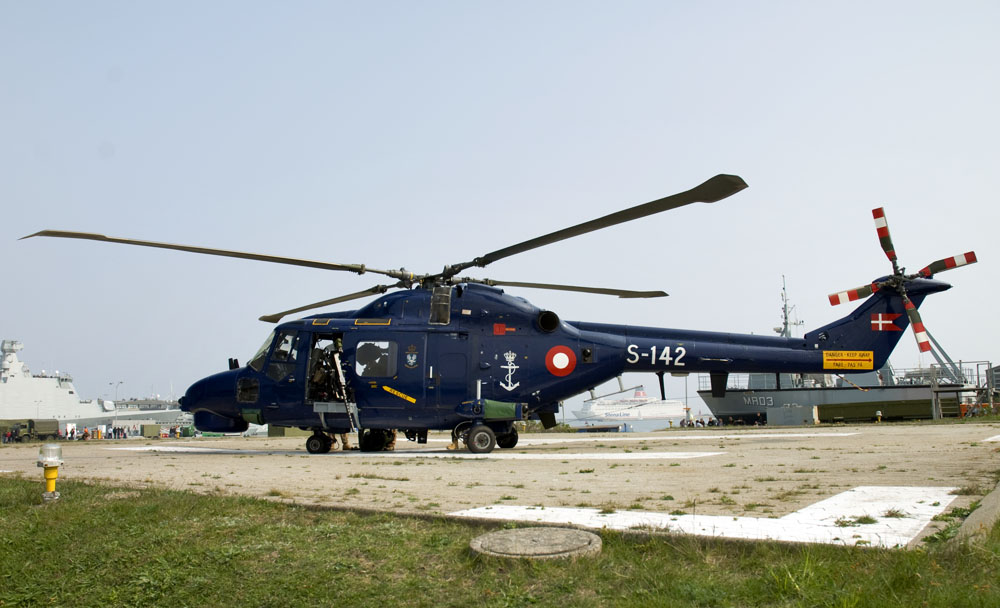 12,7mm-HMG-mounted Danish navy Westland Lynx on a heli-pad